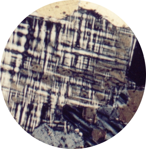 Polarizing microscope picture of thin section taken in crossed polarized light. Note the characteristic twinning cross-hatching. Rock:Nepheline syenite gneiss Local:Rio de Janeiro, Brazil Author:Eurico Zimbres Free for all use Date: 1990